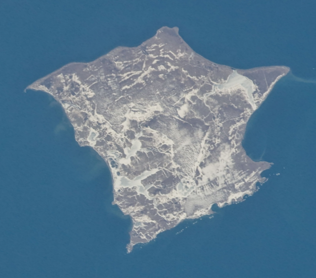 Zelyony Island, Sakhalin Oblast. Photograph taken from the ISS. Cropped.